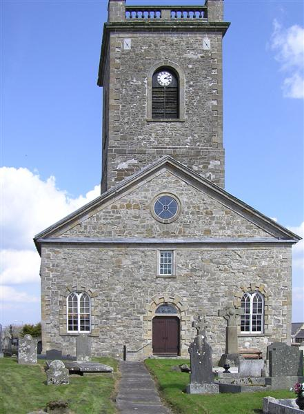 St McCartan's Cathedral, Clogher It commands the highest position in the village